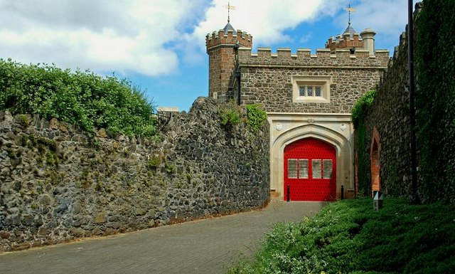 The Castle Walls, Antrim (2) See 880376. As does the Barbican gate. Continue to 1980228.